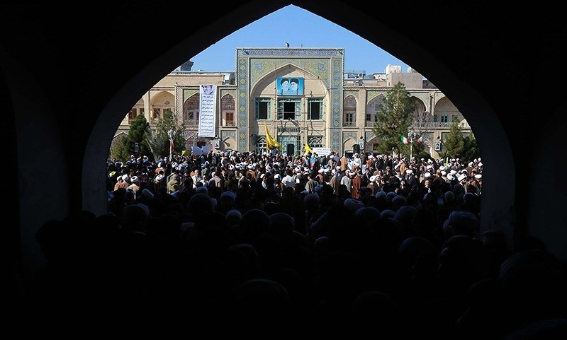 Feyziyeh School